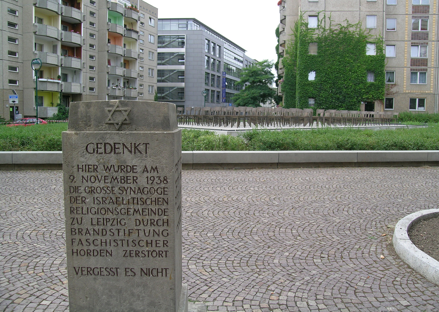 Memorial on former synagogue of Leipzig, Germany.